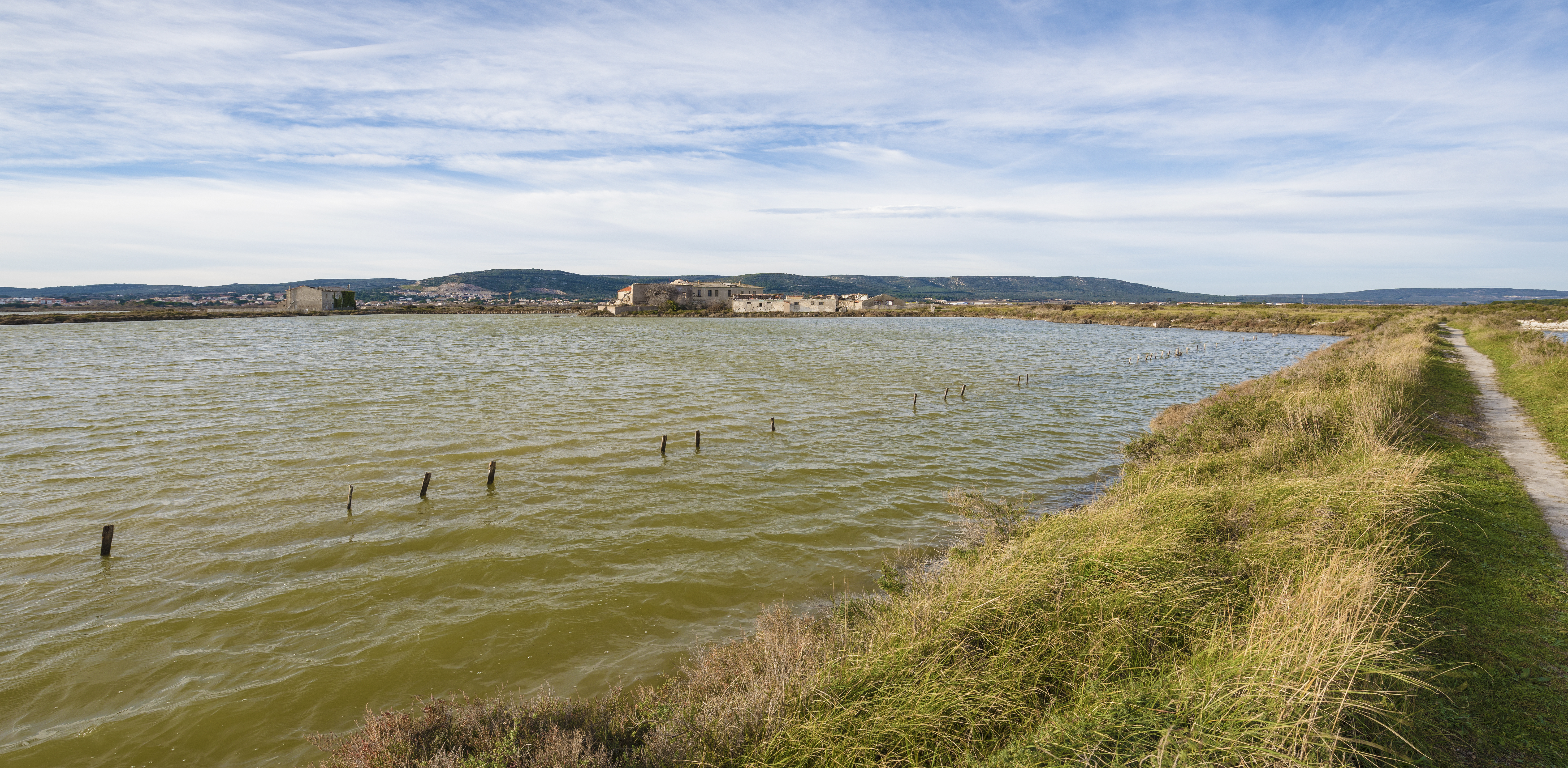 The Salins de Frontignan (former salt factory closed since 1968). The place is protected by the Conservatoire du littoral. Frontignan, Hérault, France.